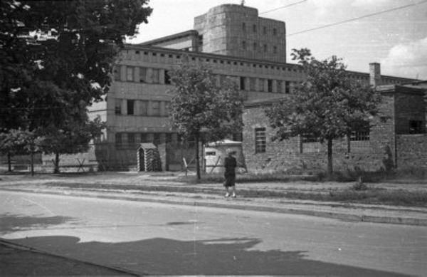 Month before WarsawUprising: Guardhouse and a bunker at the gate to the Stauferkaserne base at Rakowiecka 4 Street housing an SS battalion. View from Rakowiecka street corner with Kazimierzowska street.